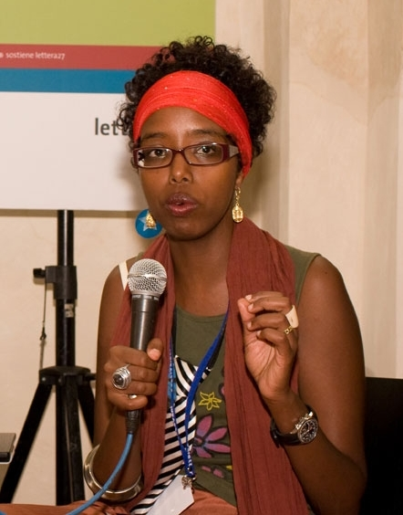 Author Igiaba Scego speaking at Festivaletteratura.